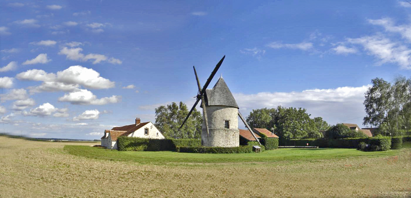 Moulin of Gastins (France)